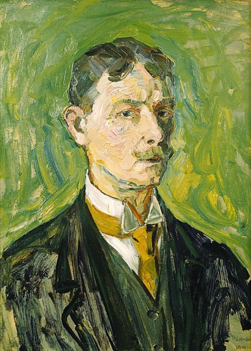 Thorolf Holmboe, self-portrait, 1910. Oil painting on plate, 63 x 47 cm